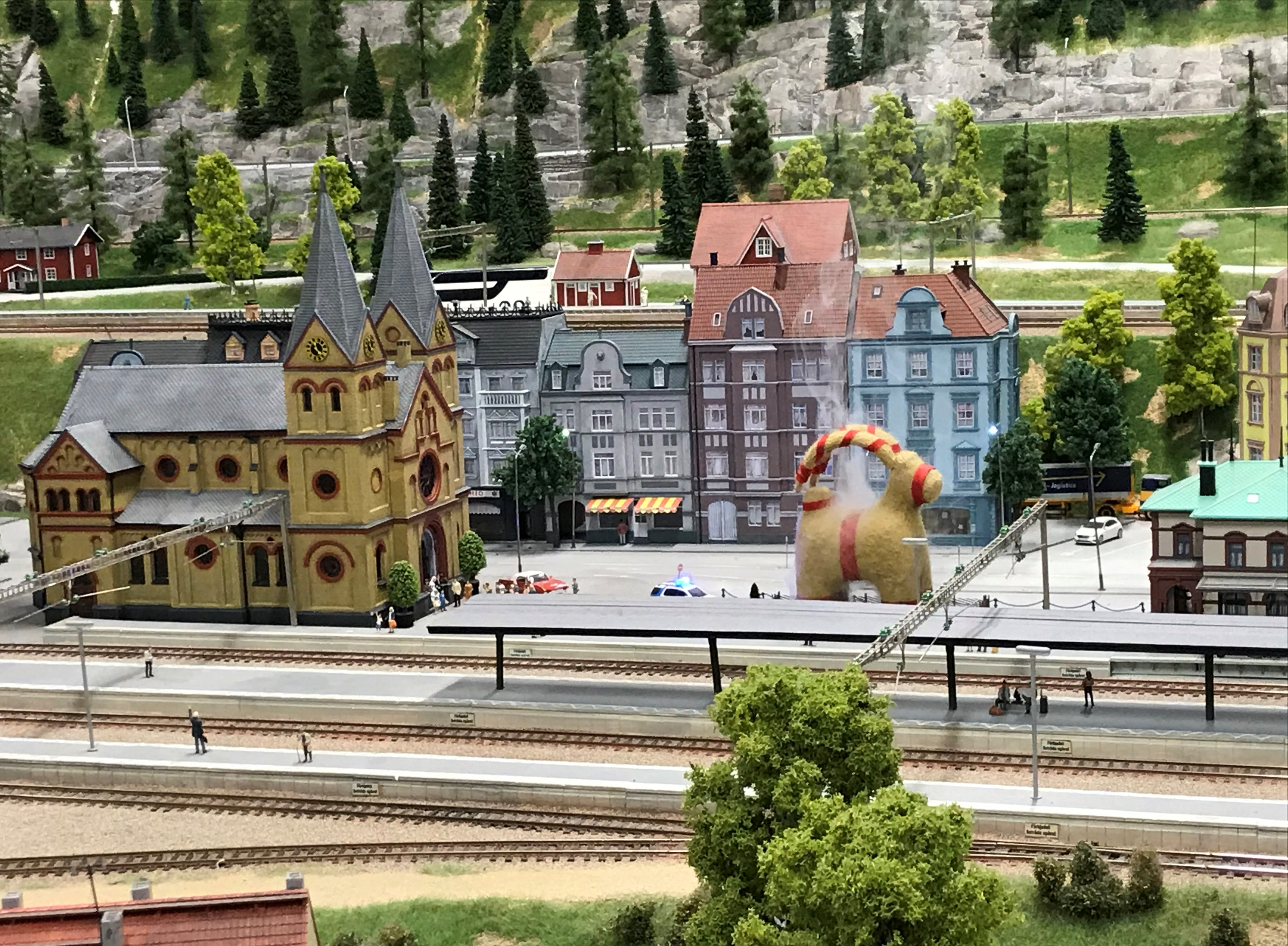 A scale model of the burning Gävle goat in Miniature Kingdom in Kungsör, Sweden. December 28, 2019.